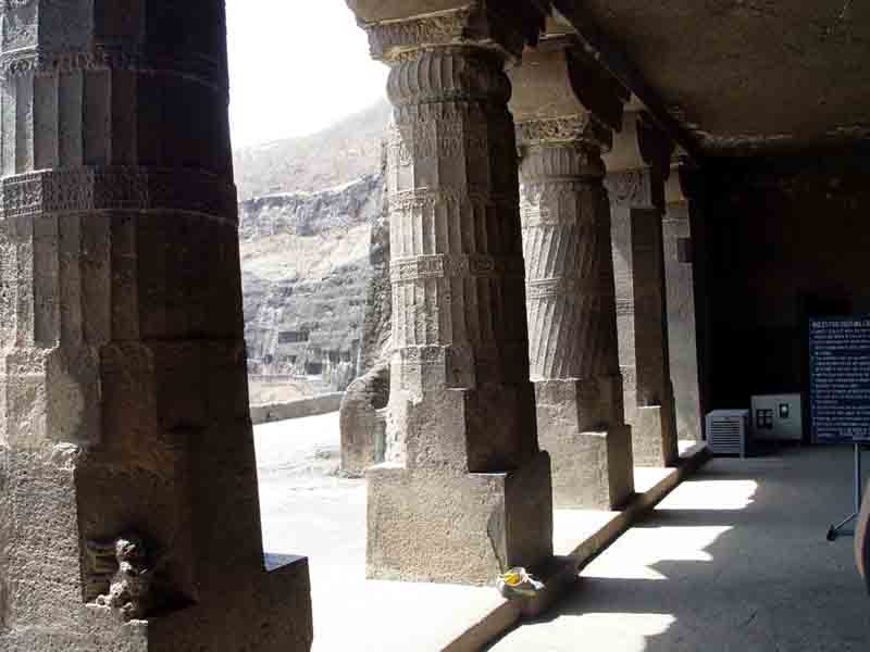 The photo is from the personal collection of RK Singh, the contributor of the page on Ajanta in April 2005.